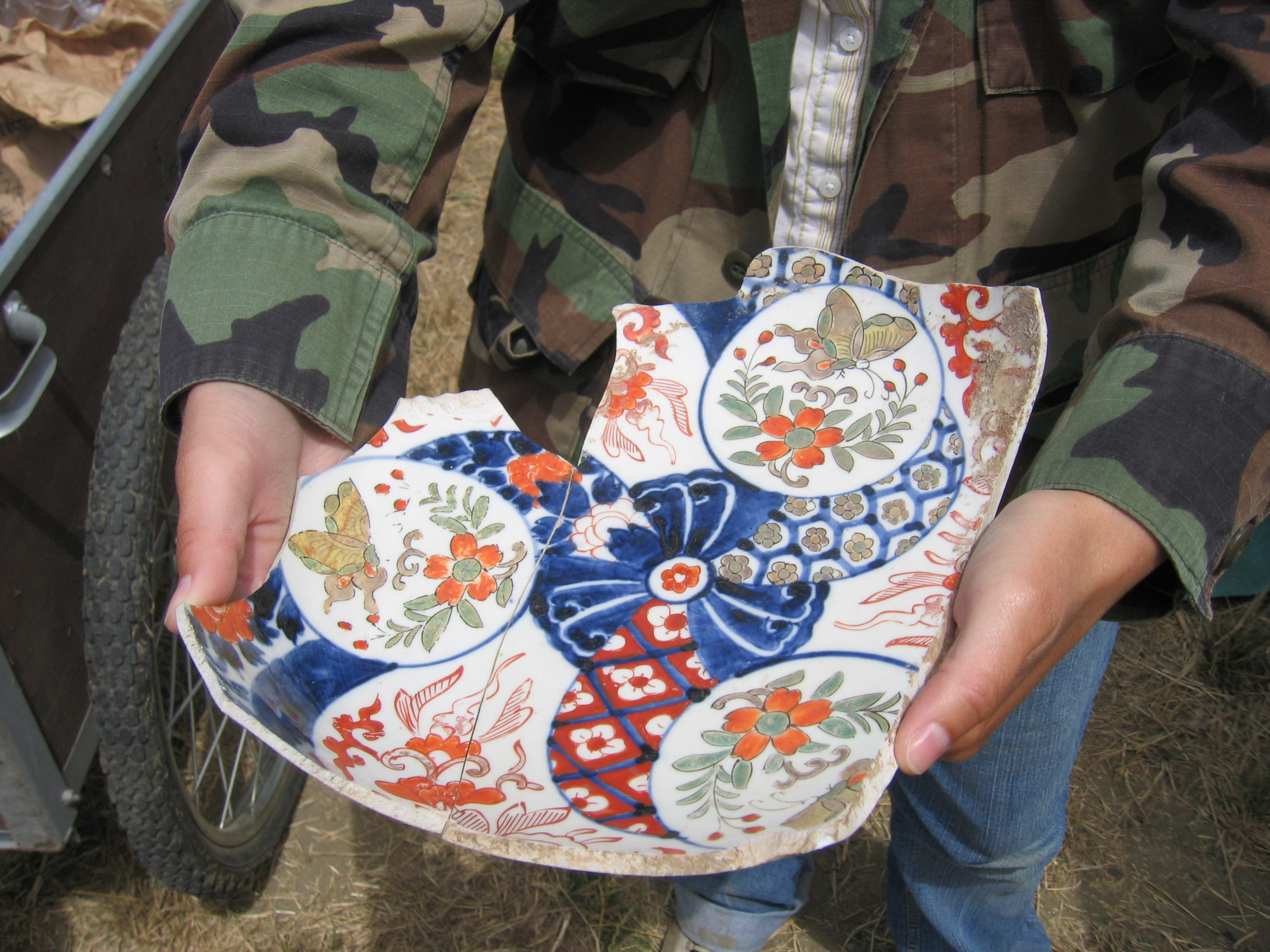 Composite of several fragments of an Imari bowl found near the back door of the Redman Hirahara House.